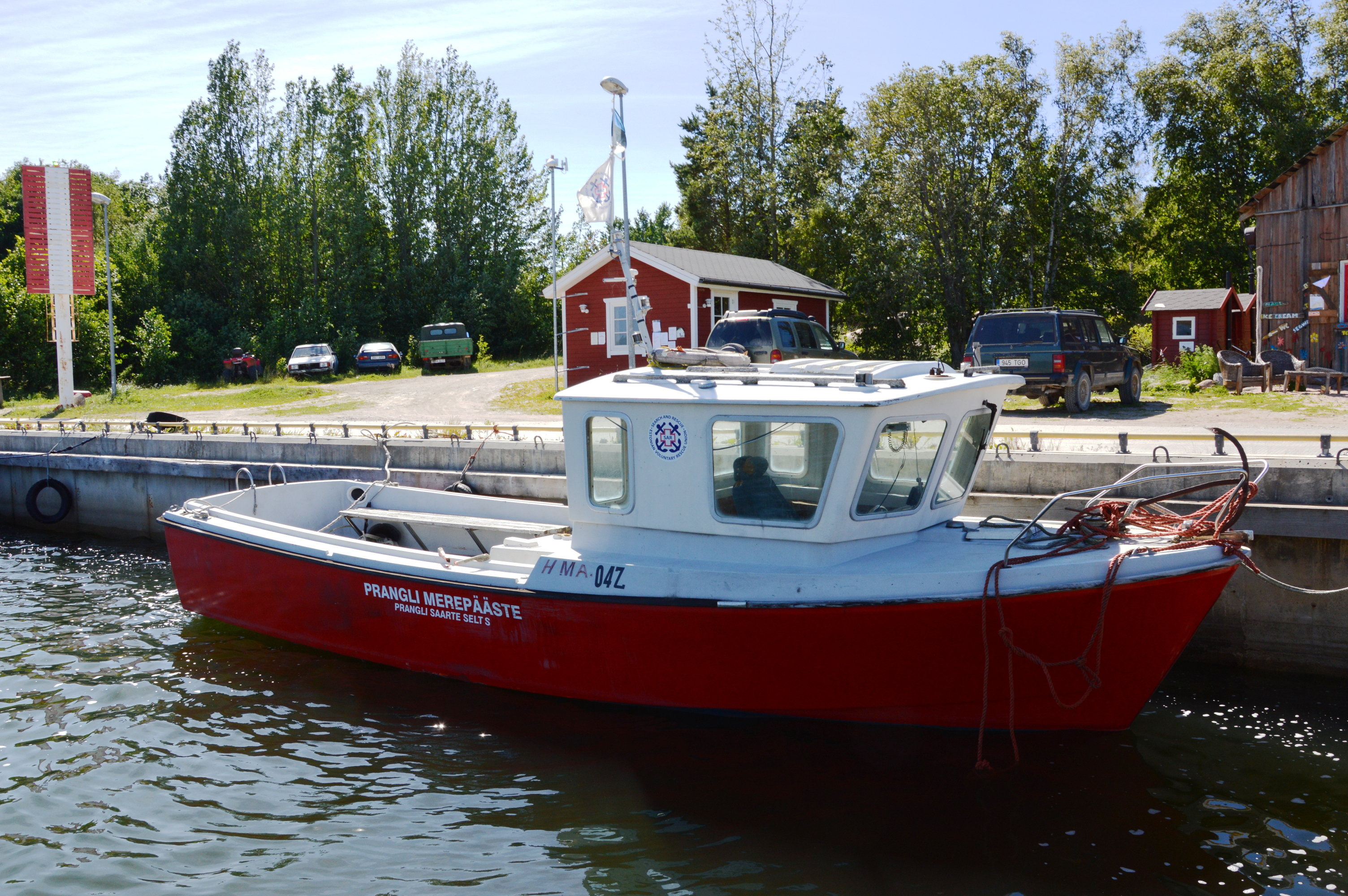 Sea Rescue boat in Port of Kelnase